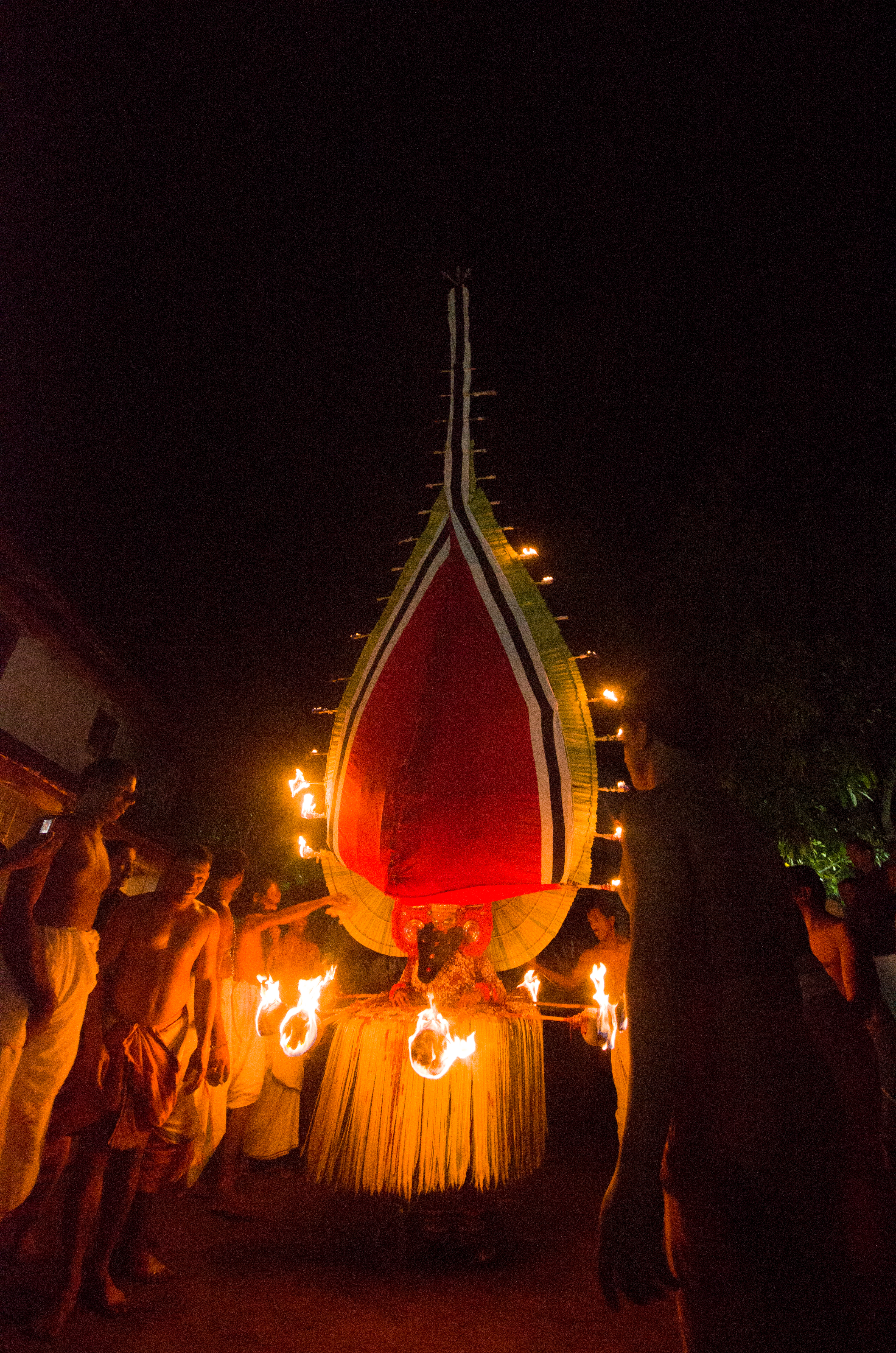 Agni kanttaakarnan theyyam in full attire